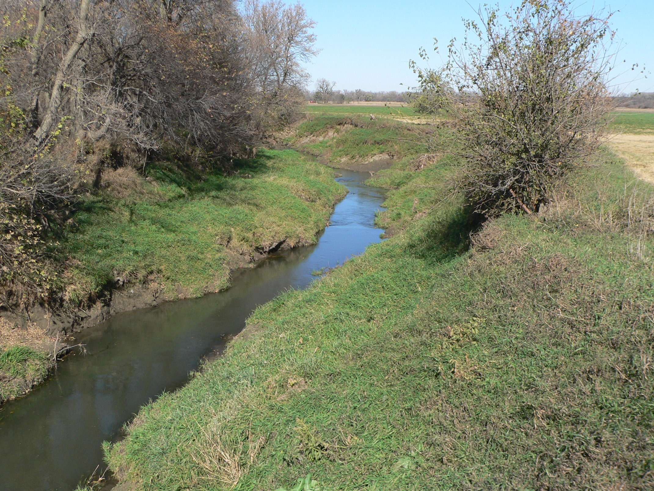 Rock Creek, southwest of Beemer in Cuming County, Nebraska. The photo was taken at a crossing just east of the Rock Creek Cemetery. The camera is facing downstream.